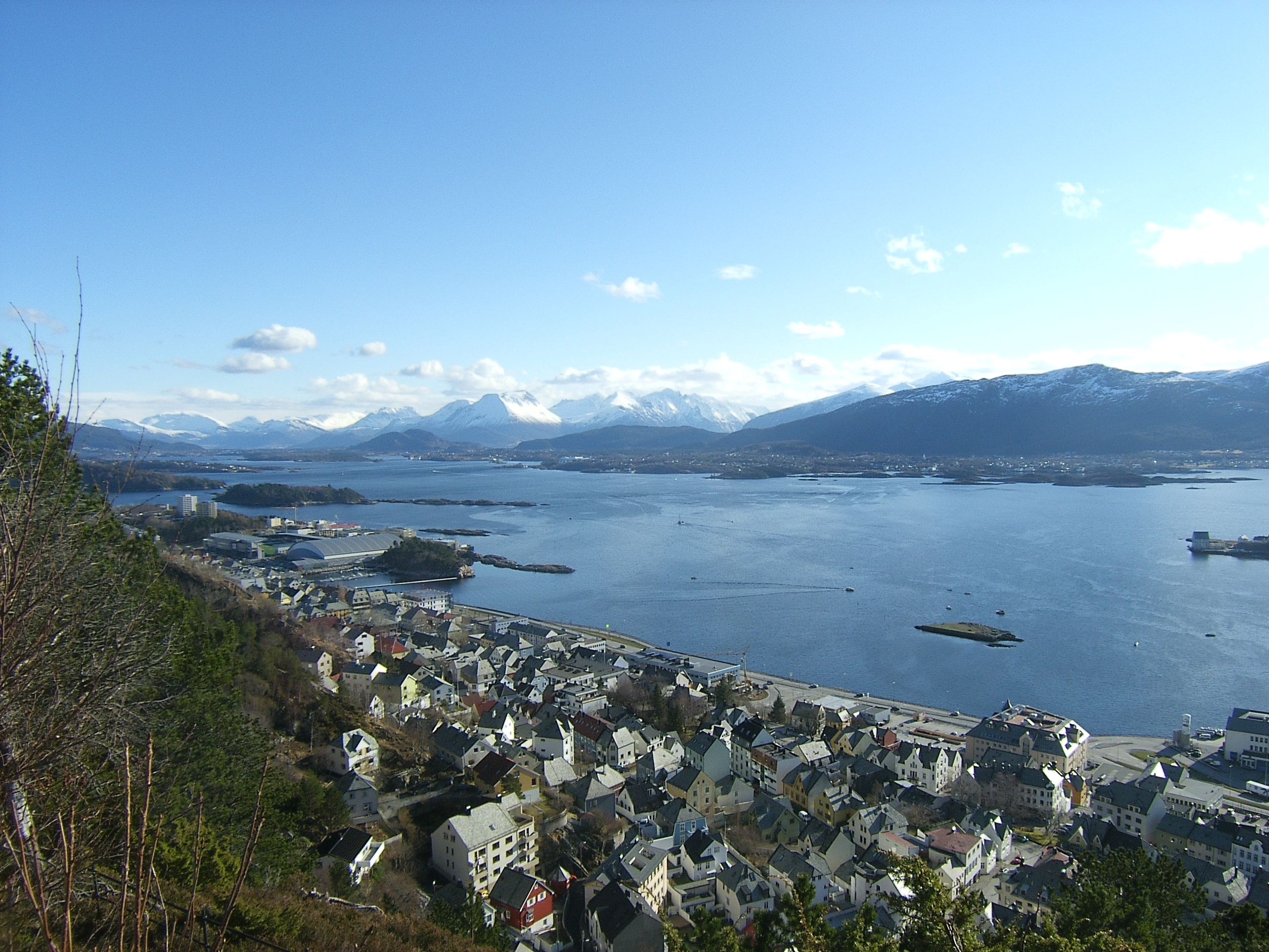 Alesund looking south east